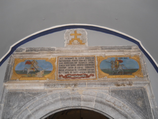 Epigraph of Hagia Eleni Church in Sille town Konya, Turkey